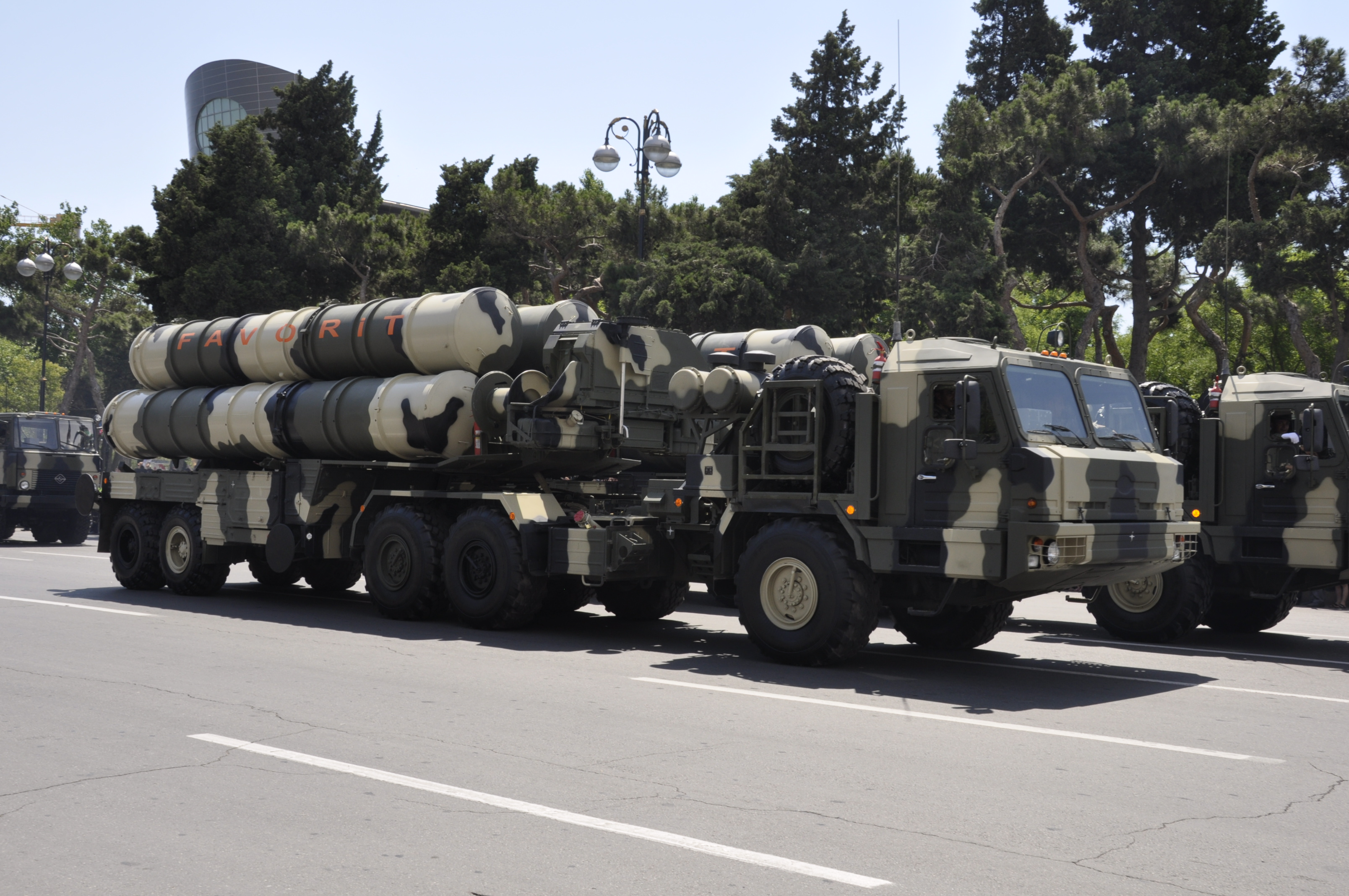 Military parade in Baku on an Army Day: A 5P85TE2 TEL of the S-300PMU2 SAM is shown.